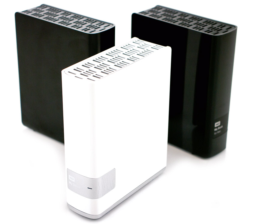 Black and white versions of the Western Digital MyCloud.